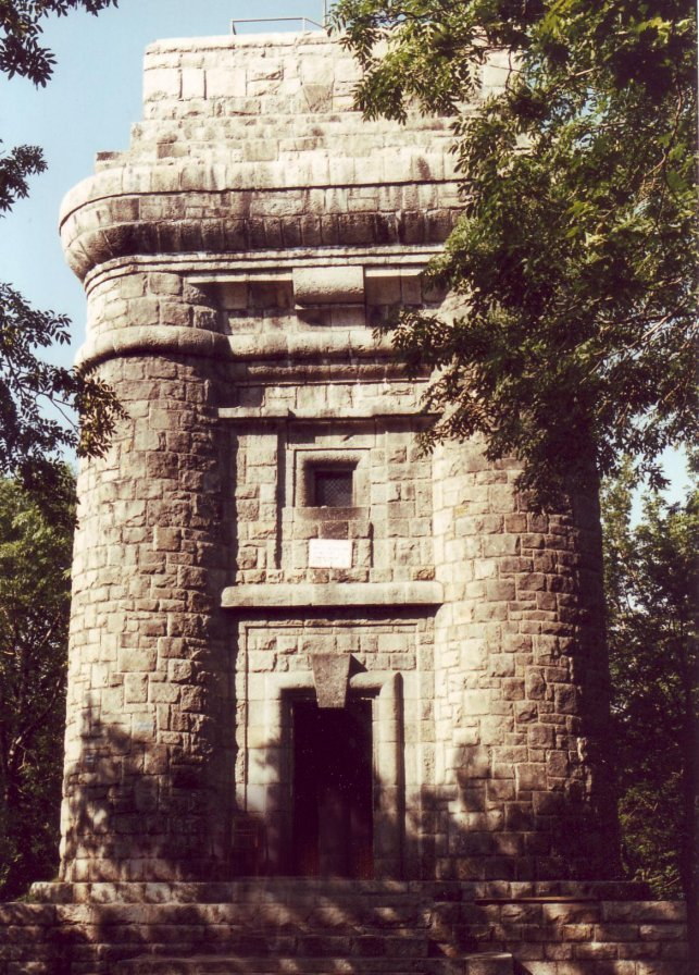 Bismarckturm, Ślęża, Sobótka, fertiggestellt 1907